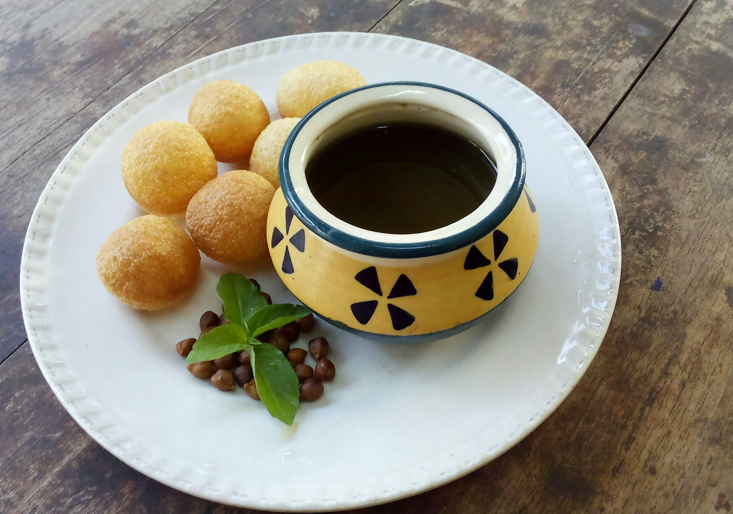 In India, this is the most loved street food. This is PANI-PURI!